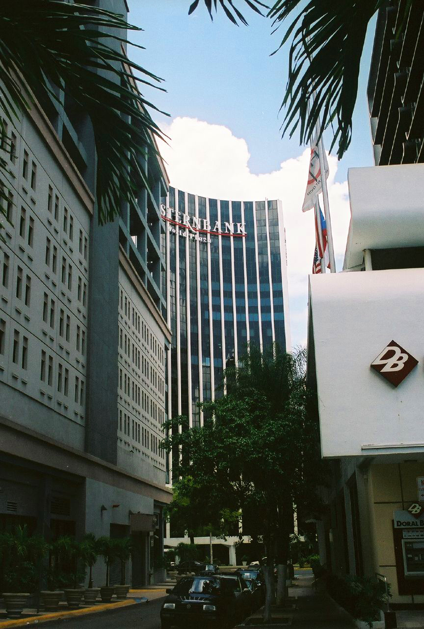 Westernbank Bulding, Hato Rey, Puerto Rico